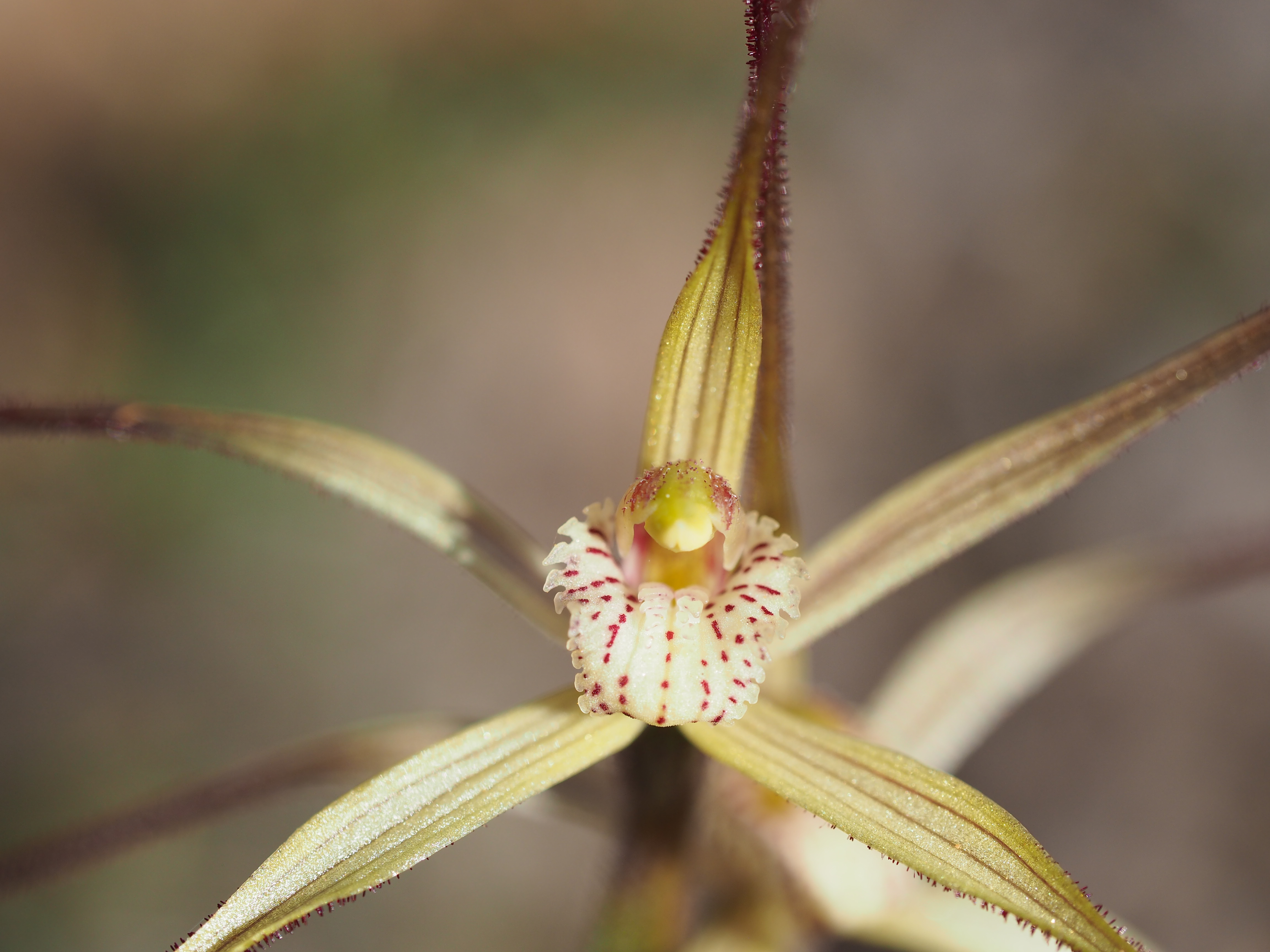 Caladenia dimidia in Dragon Rocks Nature Reserve near Hyden, Western Australia